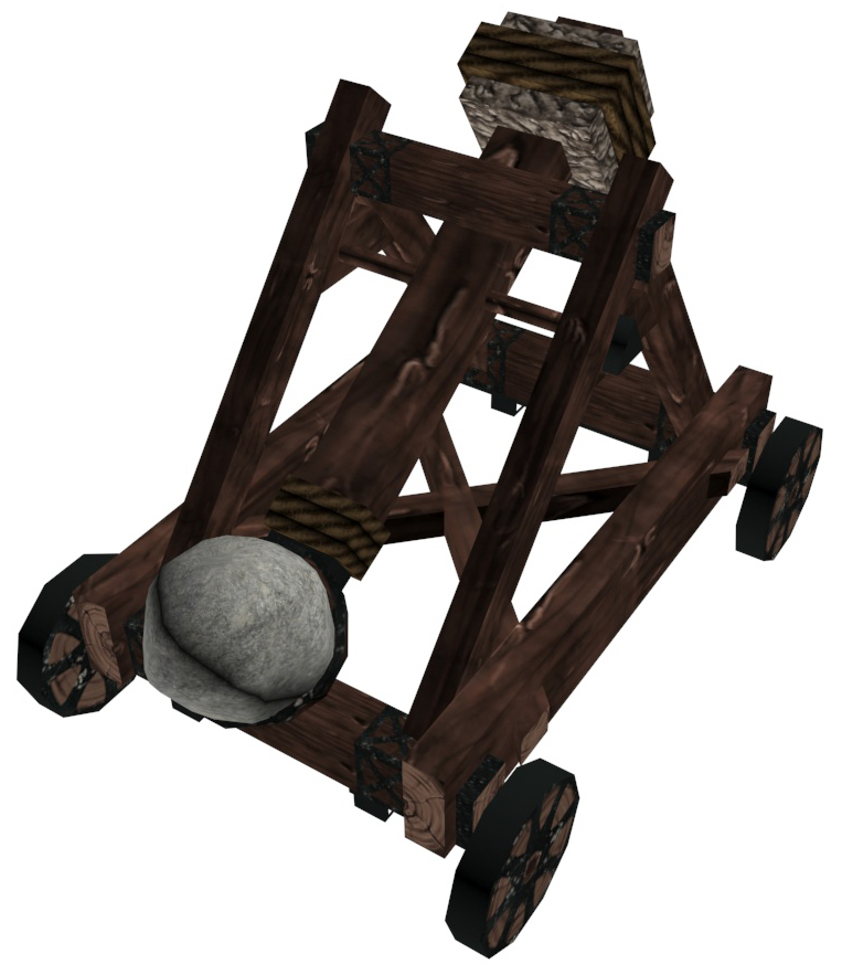 The catapult from the game Bombard.